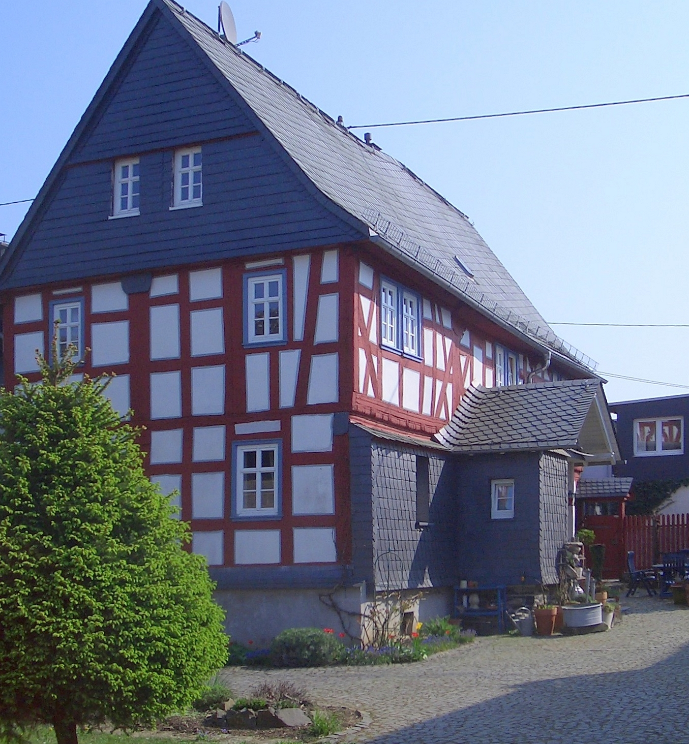 Parent House of Jacob Preuß, built in 1702